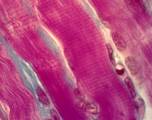 Striated muscle in the tongue of a rabbit.